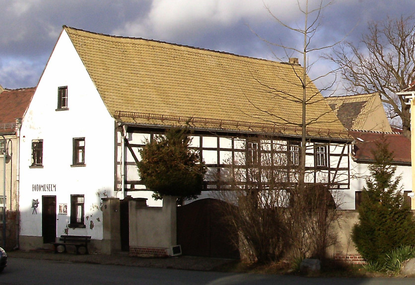 Photo Museum in Zweinaundorf (Leipzig-Mölkau, Saxony)